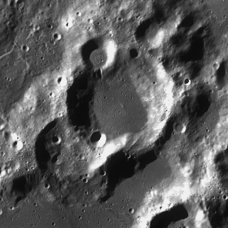 LROC . The prominent peaks sorrounding Priestley can be seen in profile past Chamberlin during very favourable southeast librations.